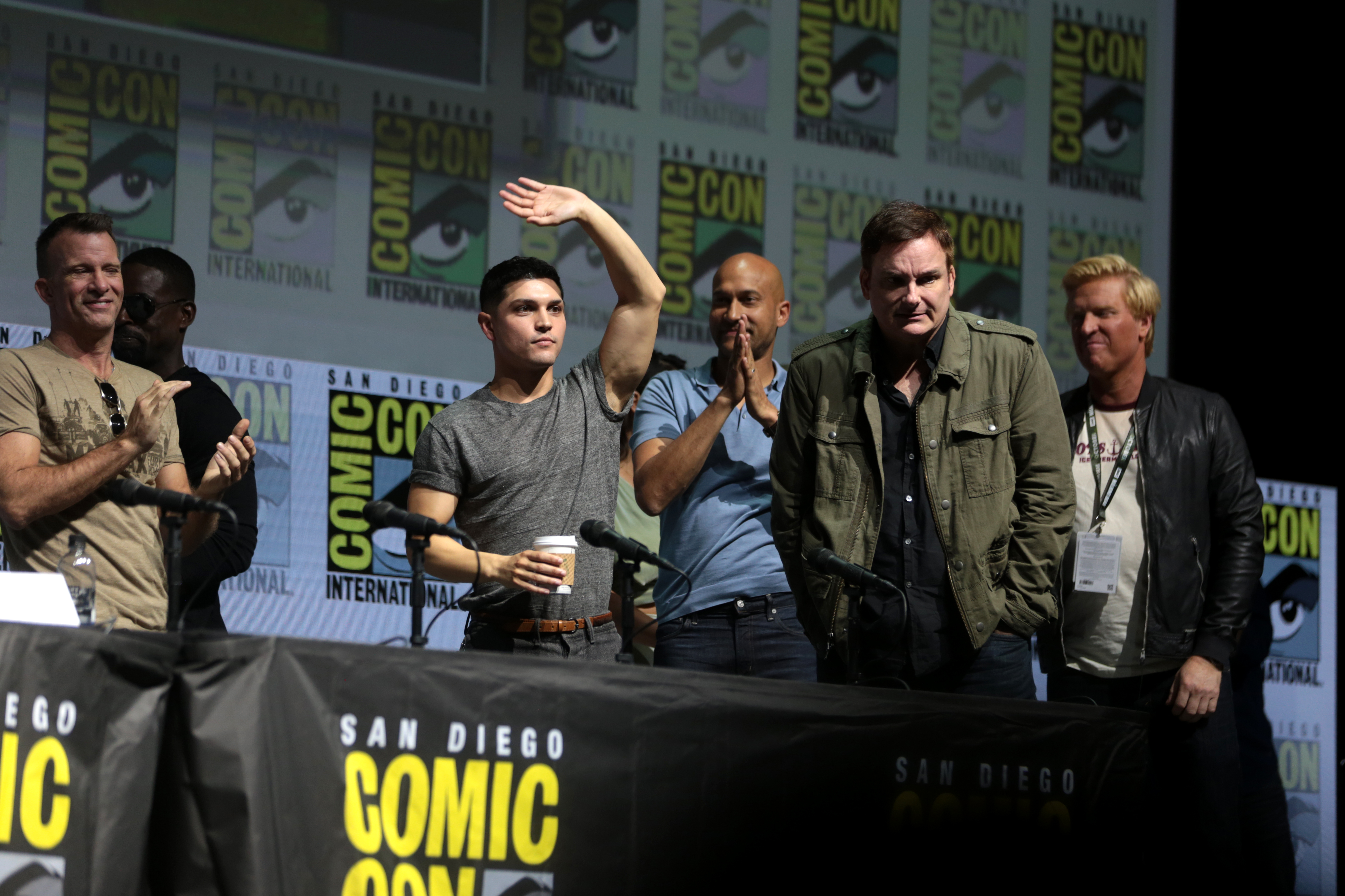 Thomas Jane, Sterling K. Brown, Augusto Aguilera, Keegan-Michael Key, Shane Black and Jake Busey speaking at the 2018 San Diego Comic Con International, for "The Predator", at the San Diego Convention Center in San Diego, California.